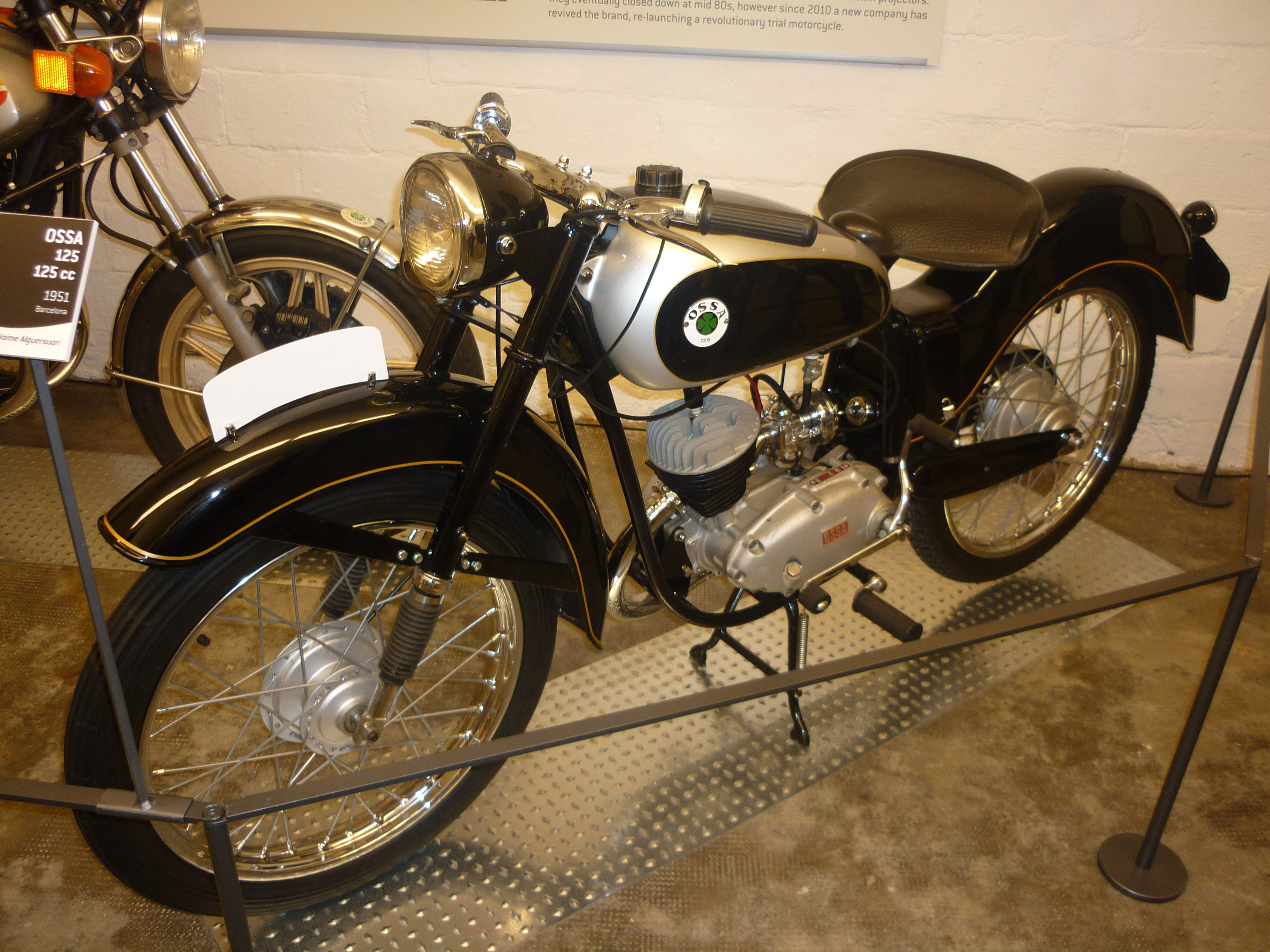 OSSA 125 125cc (1951).Museu de la Moto de Barcelona (Catalonia).